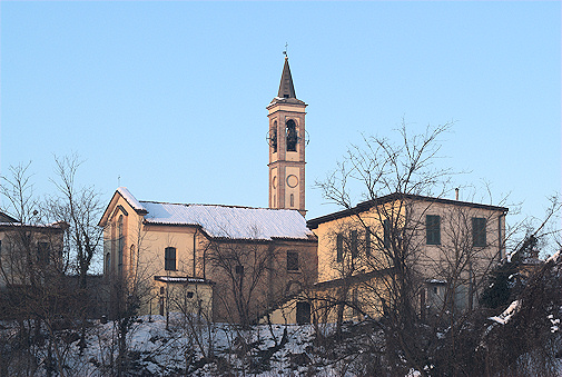 Ripalta Vecchia, hamlet of Madignano, Province of Cremona